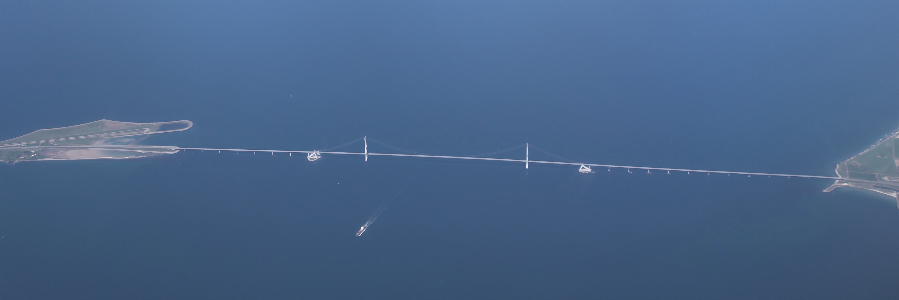 The Estern Bridge of Storebæltsbroen.